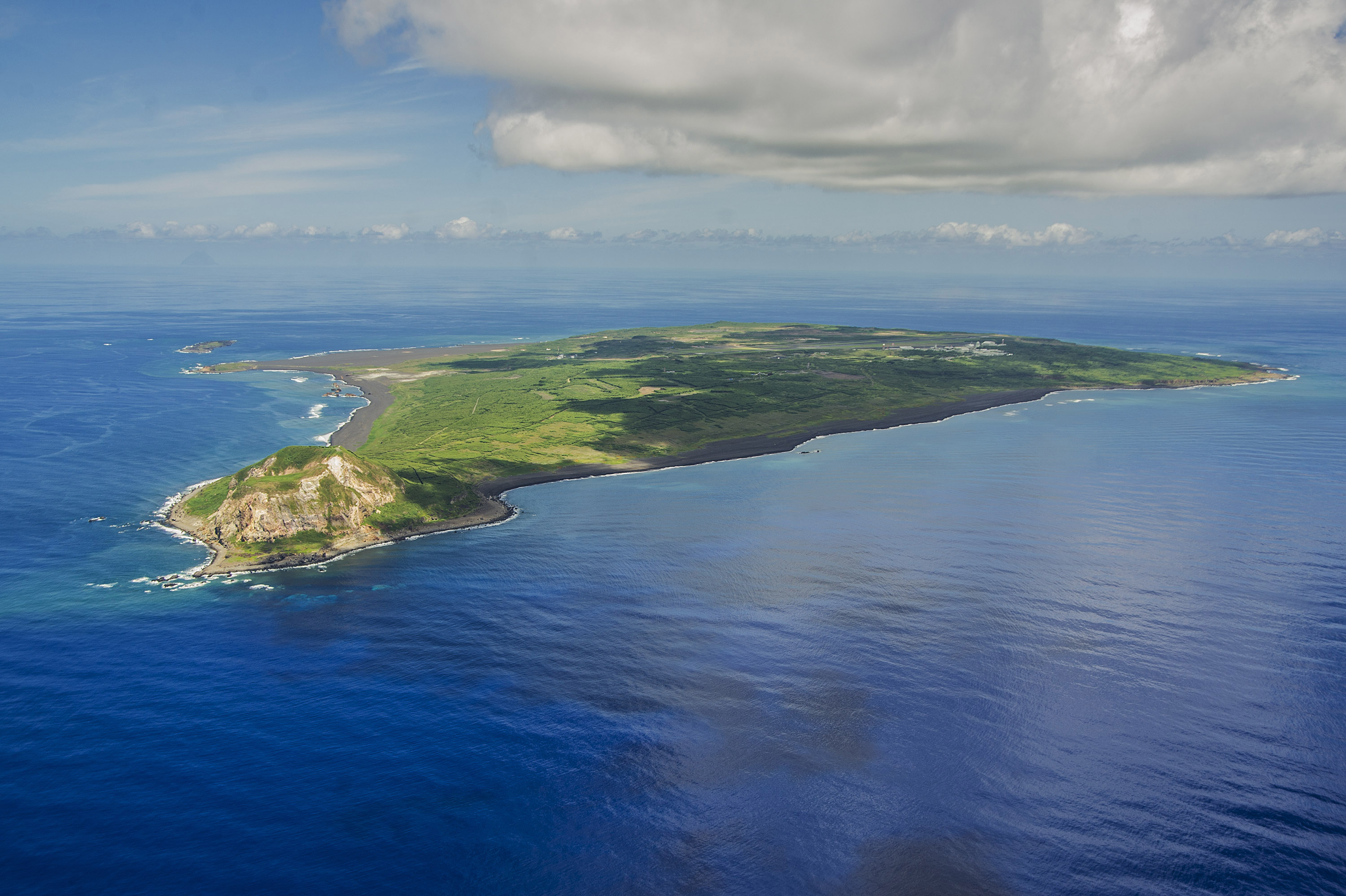 An aerial photo of the island of Iwo To, formerly known as Iwo Jima. The Battle of Iwo Jima was the largest sustained aerial offensive of the Pacific theater of World War II. The U.S. sent more than 70,000 service members from the Navy and Marine Corps and 450 ships in what became one of the largest invasion forces of the Pacific campaign.